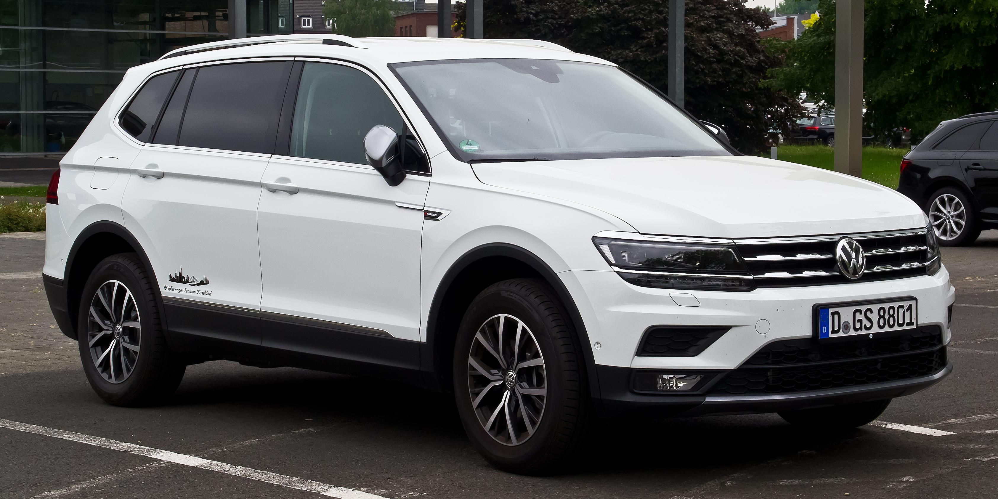 VW Tiguan Allspace Comfortline 4MOTION (II)